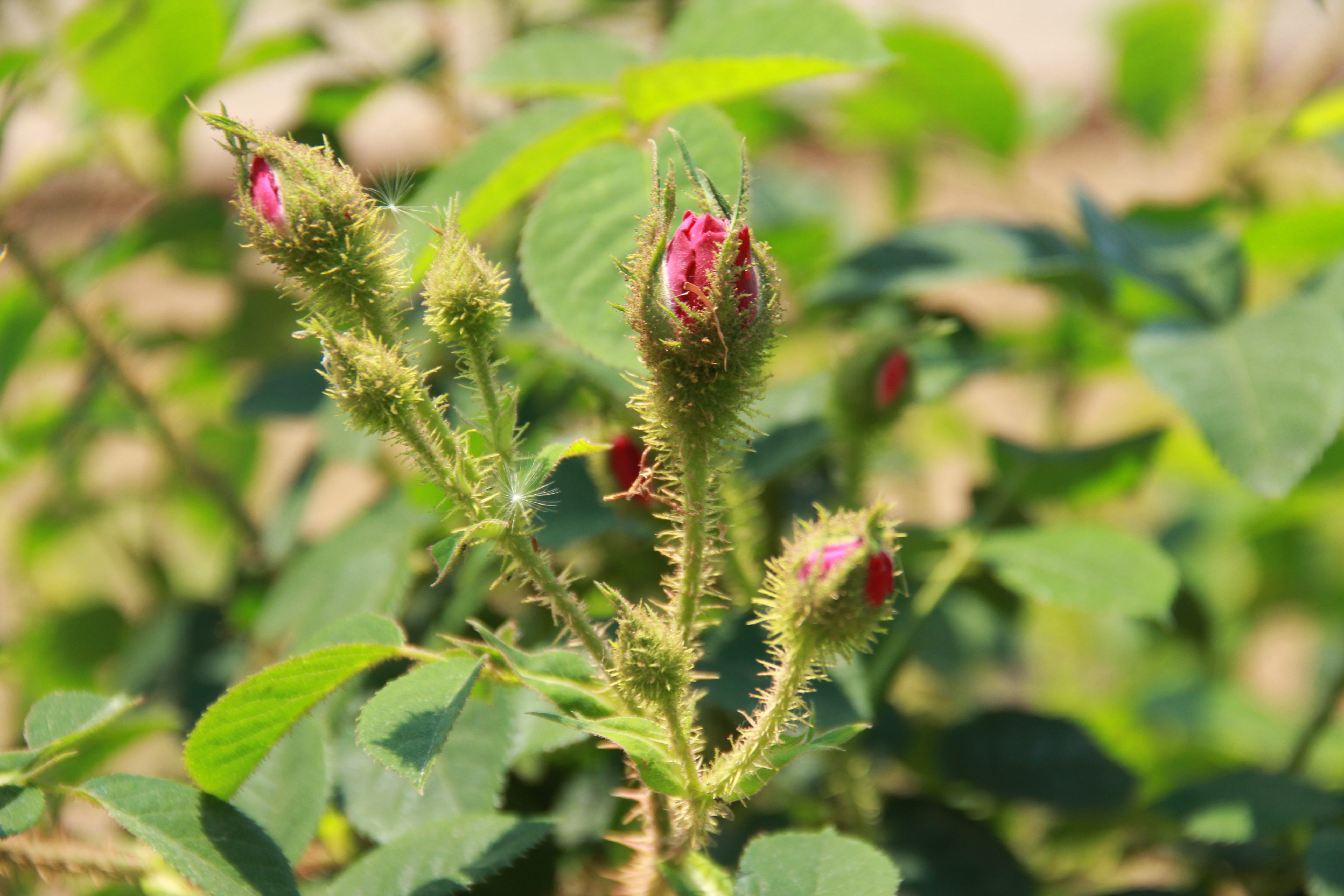 Rosa Moss